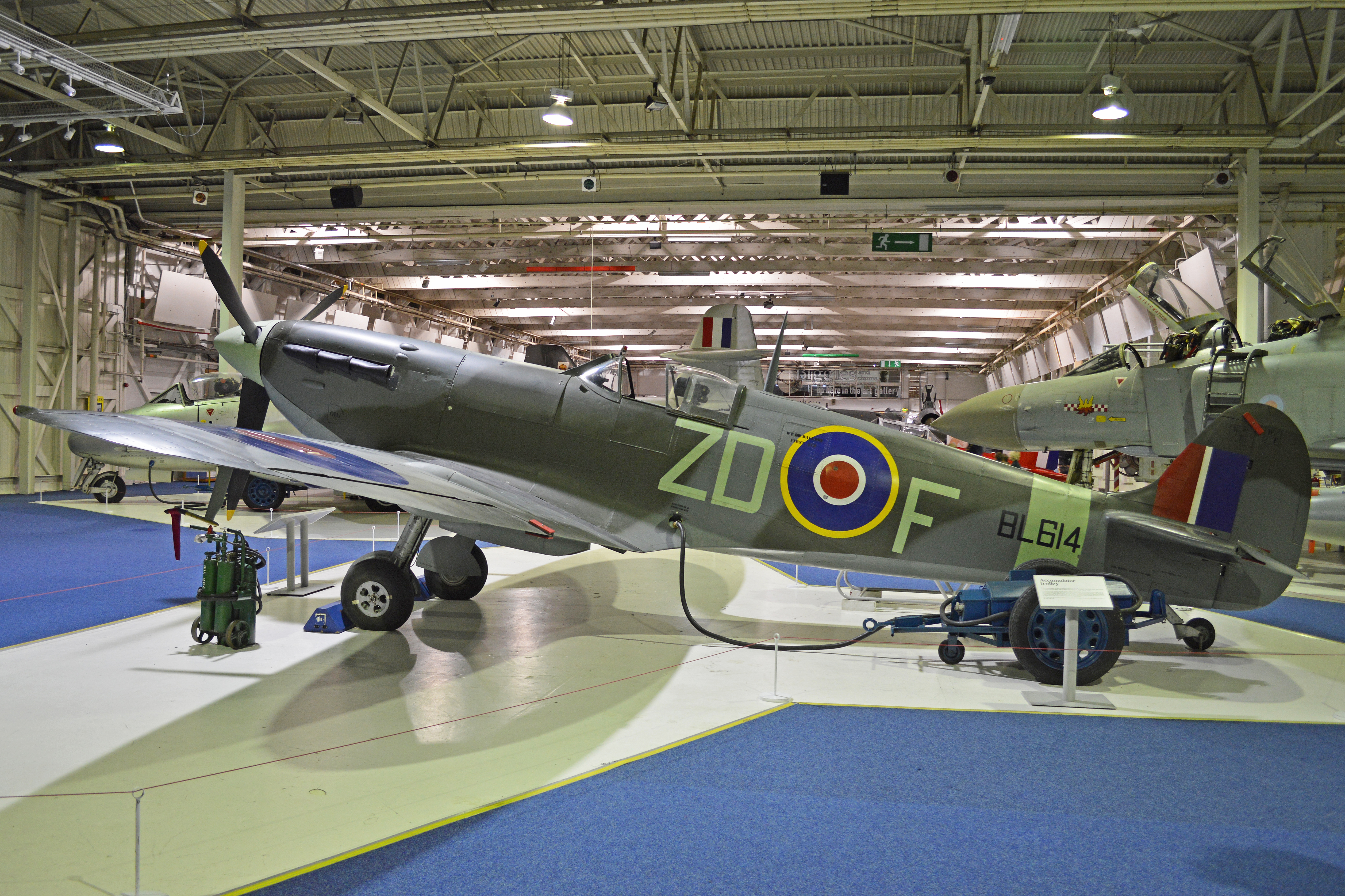 c/n CBAF.1646. Built December 1941. Flew operationally with 611sqn, 242sqn, 222sqn, 64sqn and finally 118sqn. In November 1943 it became an instructional airframe with No2 School of Technical Training at RAF Cosford, then moving to Hednesford with No6 SOTT. Withdrawn in 1948, it became a recruiting airframe until going on display at RAF Credenhill in 1955 as a gate guard. In 1967 it went to Henlow for use in taxiing scenes in the Battle of Britain film, which concluded late in 1968. In 1972 it joined the collection at RAF Colerne. Here it was restored and returned to genuine 222sqn markings coded 'ZD-F'. It then moved to St Athan when Colerne closed in 1975. In 1982 it moved to the Manchester Air & Space Museum where it remained on display until 1995. It was then taken to Rochester and completely rebuilt by the Medway Aircraft Preservation Society. This was completed in 1997 and it then went on display in the Historic Main Hangars at the RAF Museum, Hendon, London, UK. 22-3-2015